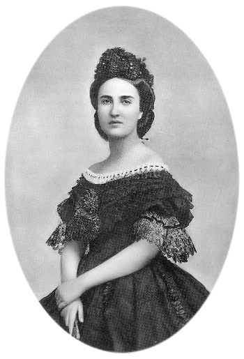 Princess Charlotte of Belgium (1840-1927)